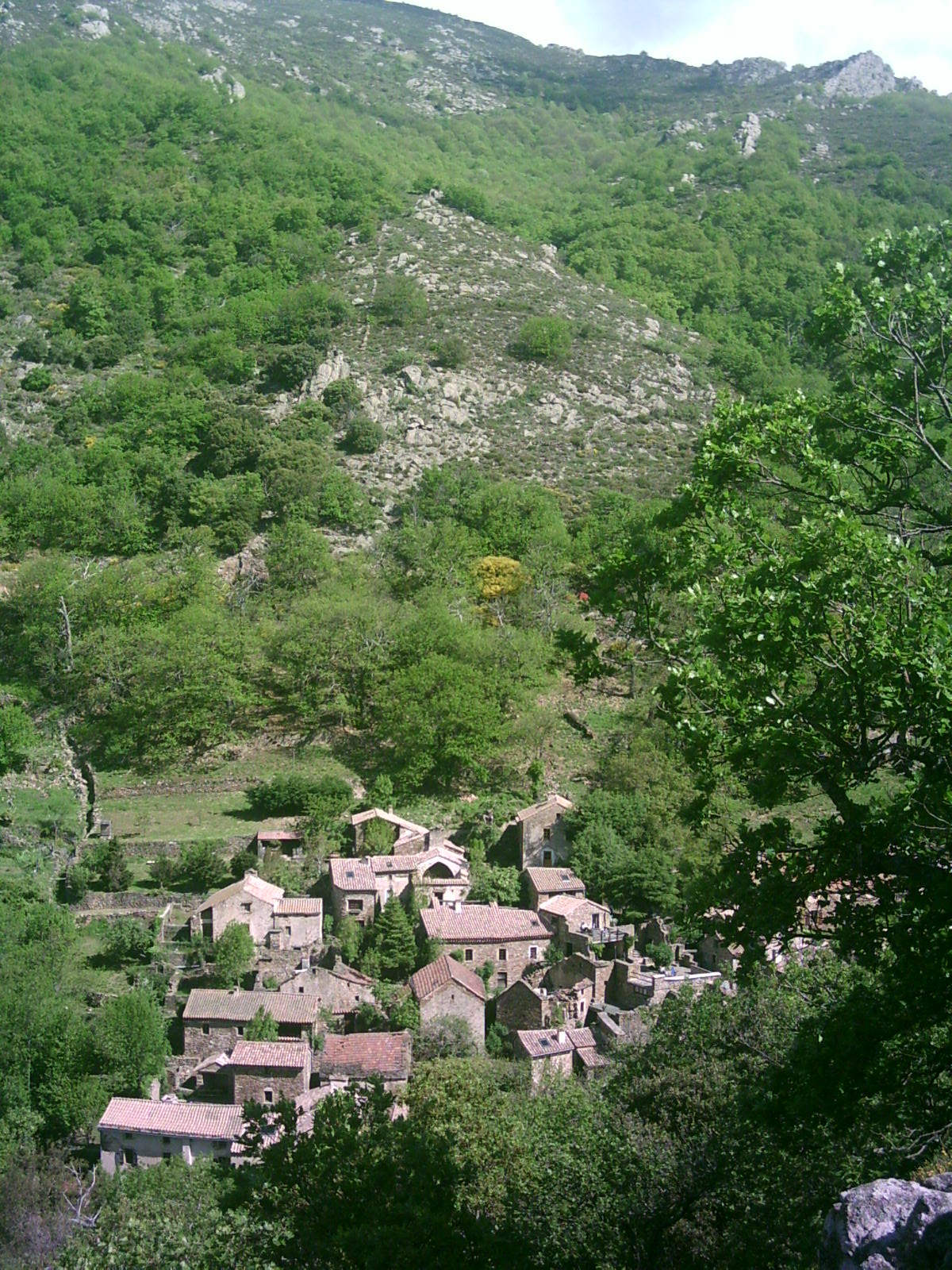 Bardou is a village in region Aquitaine, department of Dordogne, France